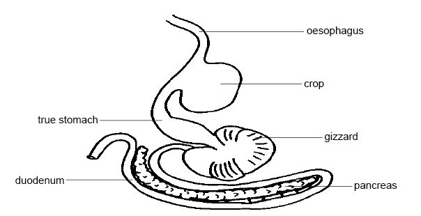 By Ruth Lawson. Otago Polytechnic.